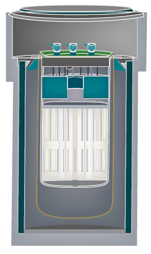 IMSR Core-unit, primary containment and silo.